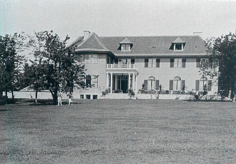 Villa Svastika, the private residence of Vagn Jacobsen. It was built in 1926 to the design of Povl Baumann. The name refers to the symbol which had been used by Carlsberg since the mid 19th century. After the Nazi movement began using the symbol and the brewery in consequence discontinued their use of it, the villa became known as Christianshøj. It was demoished in 1983